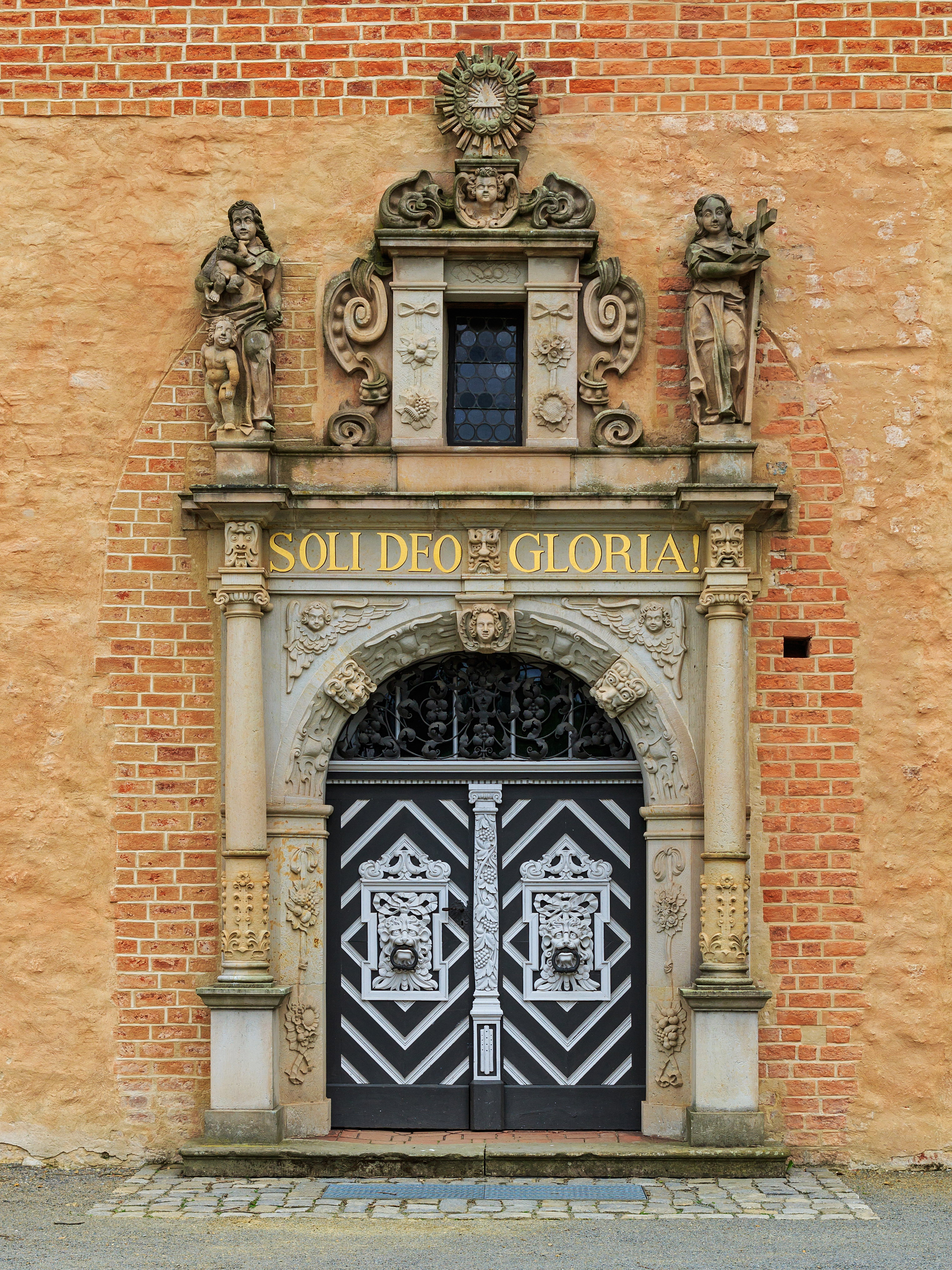 Doberlug-Kirchhain (Brandenburg, Germany): St. Mary Church